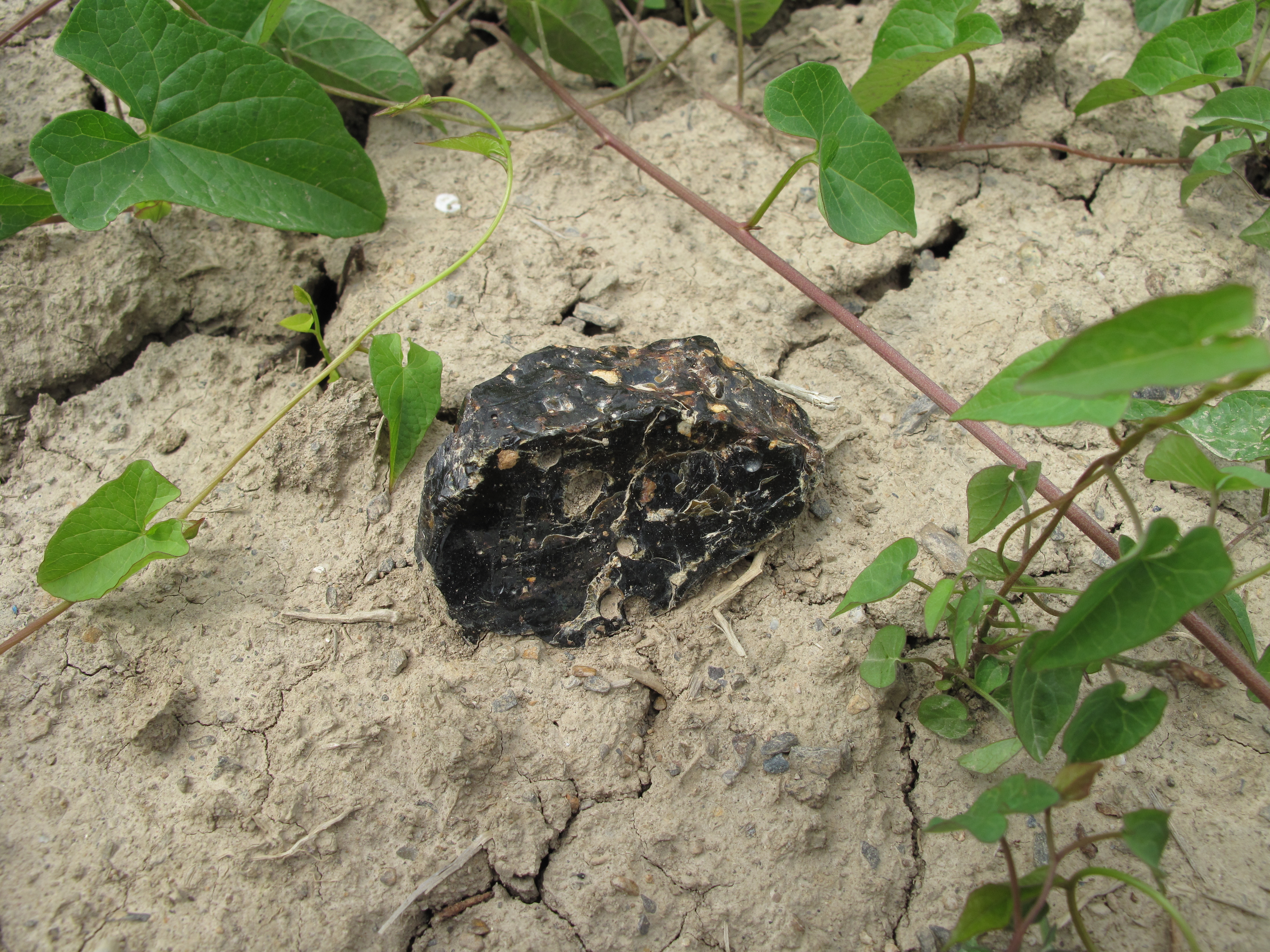 Slag (from former Osek ironworks, ?) natural memorial Vosek, Rokycany District, Czech Republic.